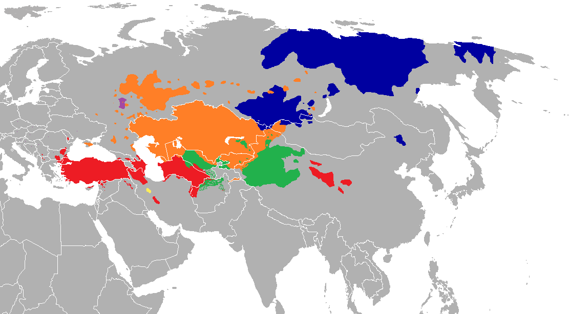 An accurate representation of the areas in which Turkic languages are spoken. Southwestern (Oghuz) Southeastern (Karluk) Khalaj (Arghu) Northwestern (Kipchak) Chuvash (Oghur) Northeastern (Siberian)